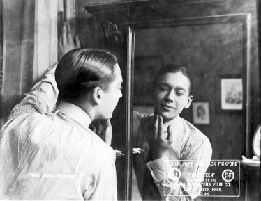 Screen shot of actor Jack Pickford from the Robert Vignola directed film Seventeen (1916) released by Famous Players/Paramount.